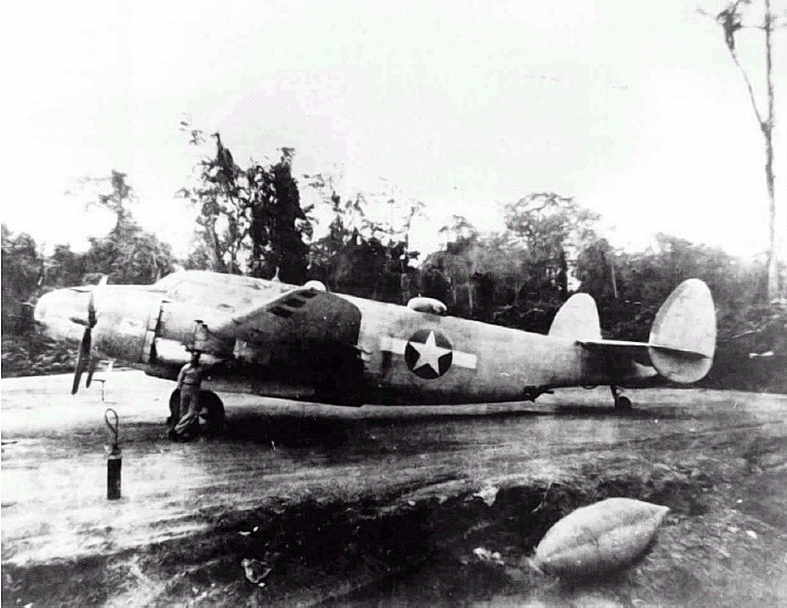 A U.S. Marine Corps Lockheed PV-1 Ventura night fighter of Marine night fighter squadron VMF(N)-531 in the Southwest Pacific in 1943. A few PV-1 patrol planes had been modified with AI Mk IV air-search radar for interim use as night fighters.